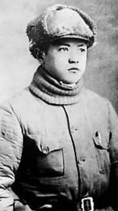 Lin Hu, a soldier of the People's Liberation Army (PRC)